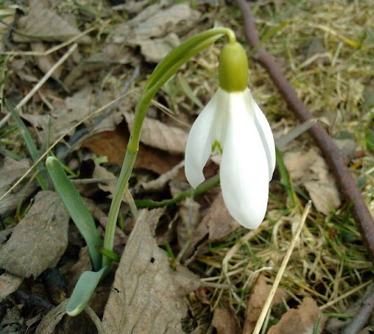 Snowdrop